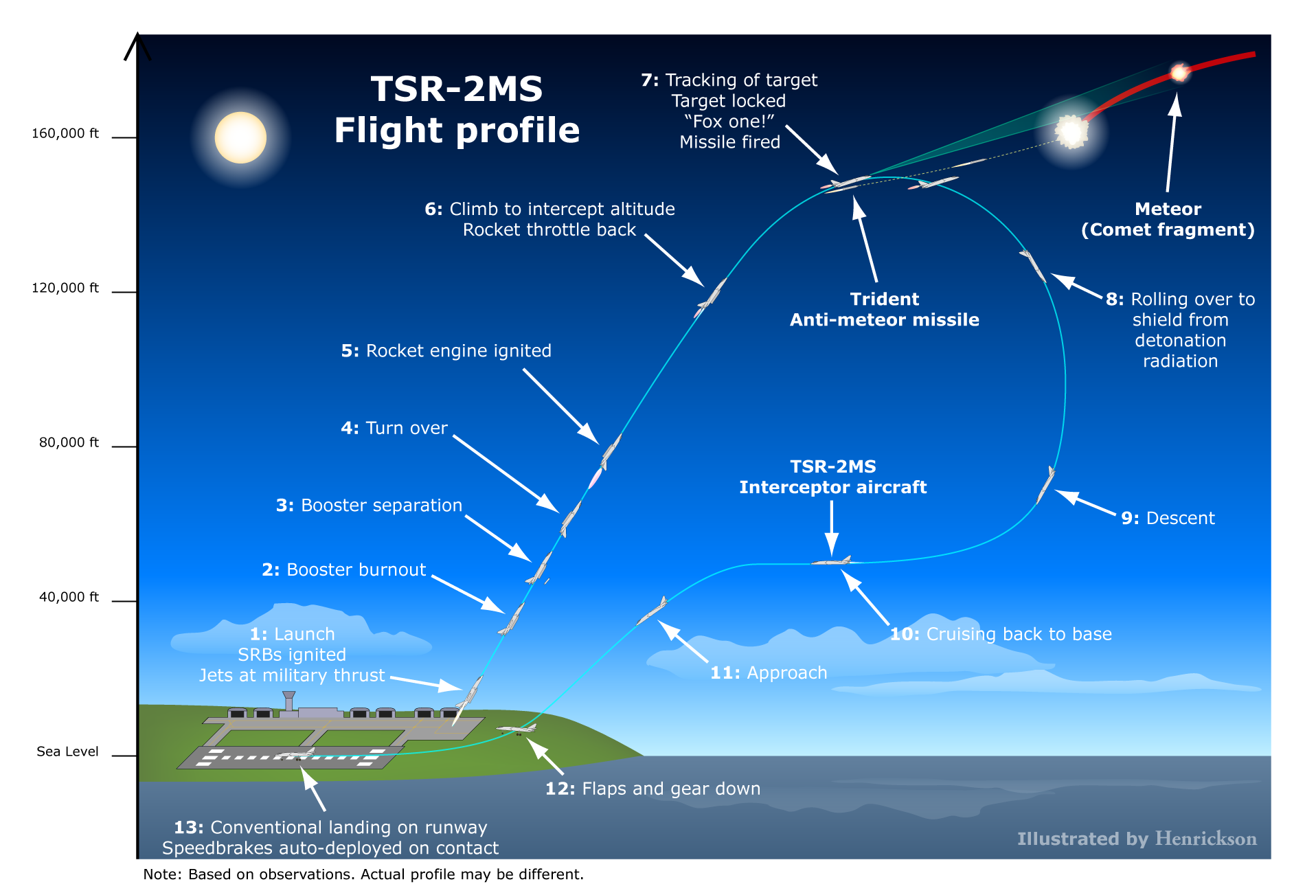 Flight profile of the TSR-2MS in the anime Stratos 4.